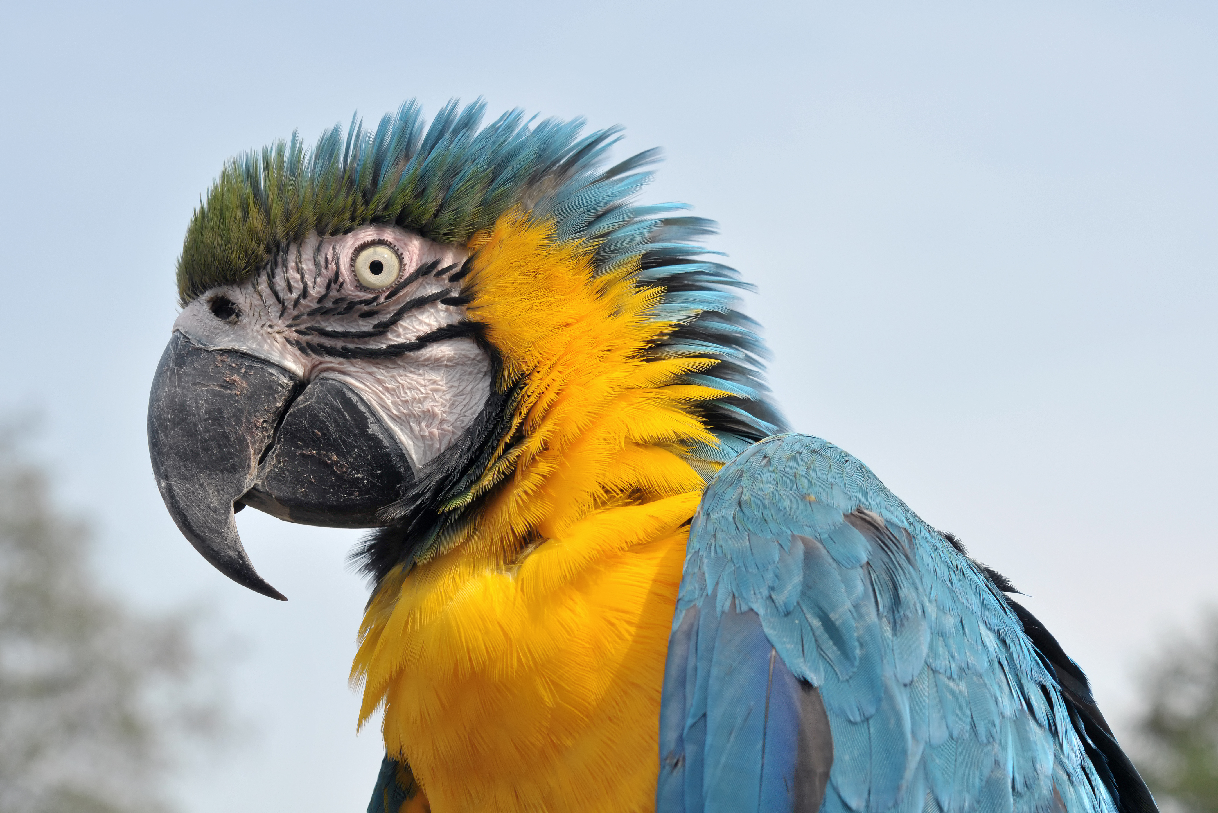 Head of the Blue-and-yellow Macaw in the Weltvogelpark Walsrode near Walsrode, Lower Saxony, Germany